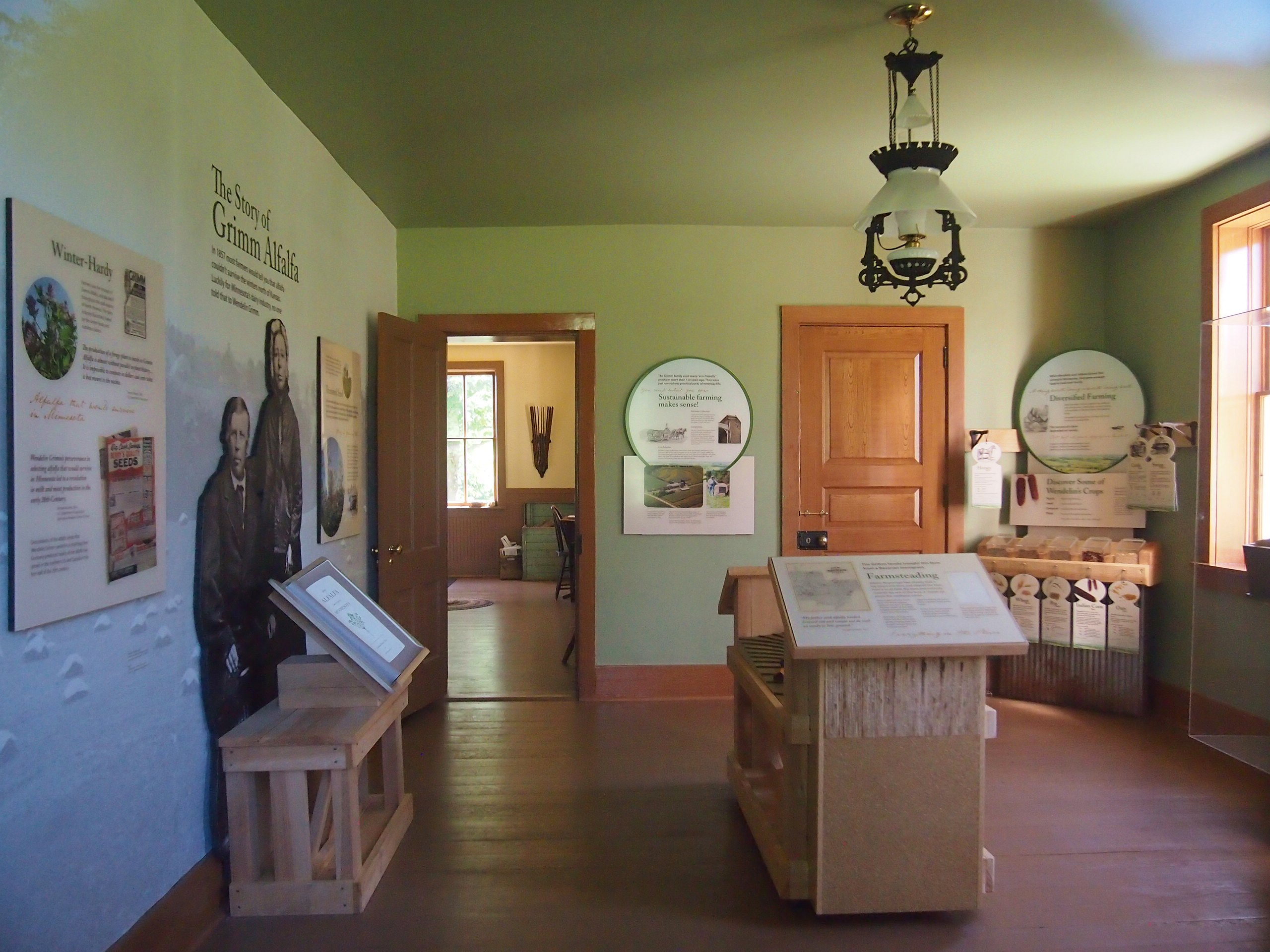 Interior, Wendelin Grimm Farmhouse, Carver Park Reserve, Laketown Township, Minnesota, USA.